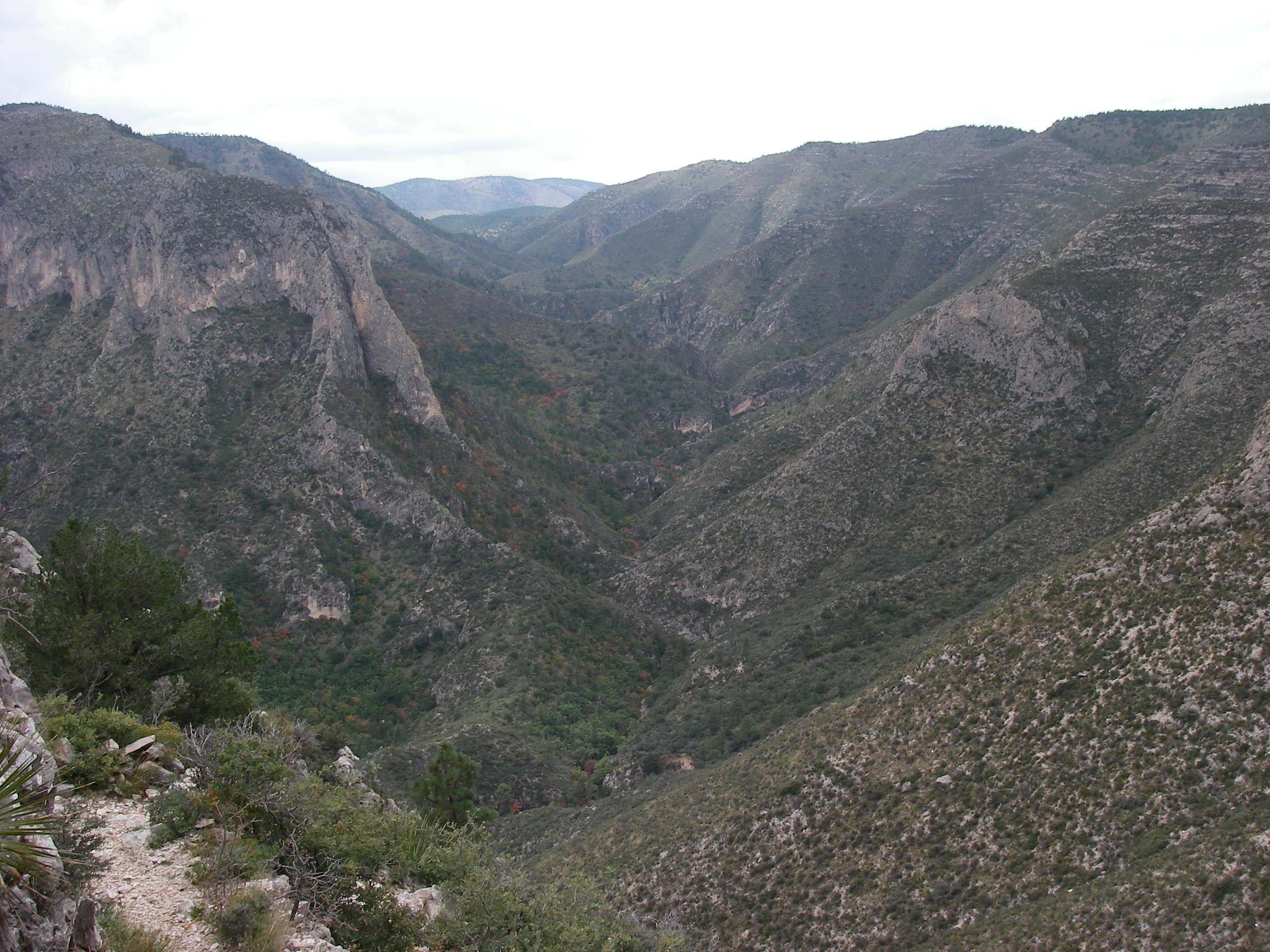 View looking west from "The Notch" toward South McKittrick Canyon